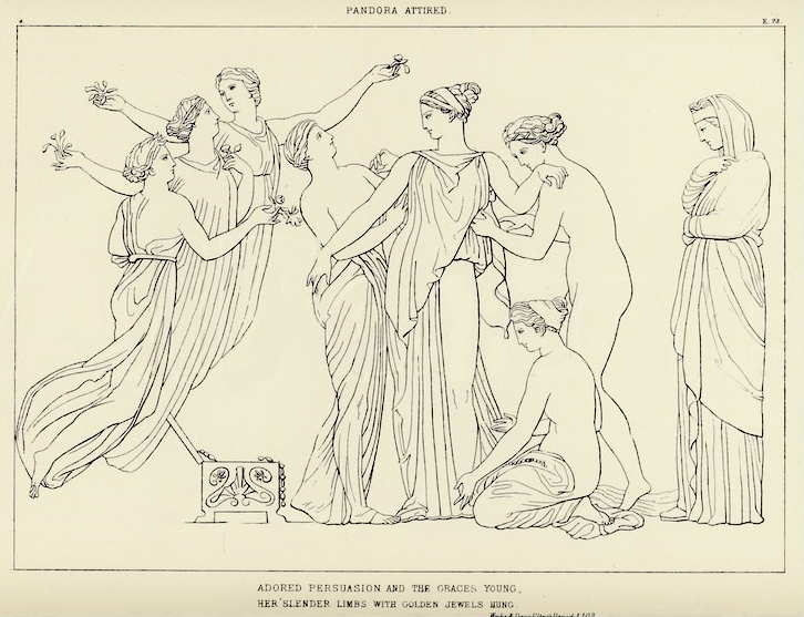 Pandora Attired by John Flaxman